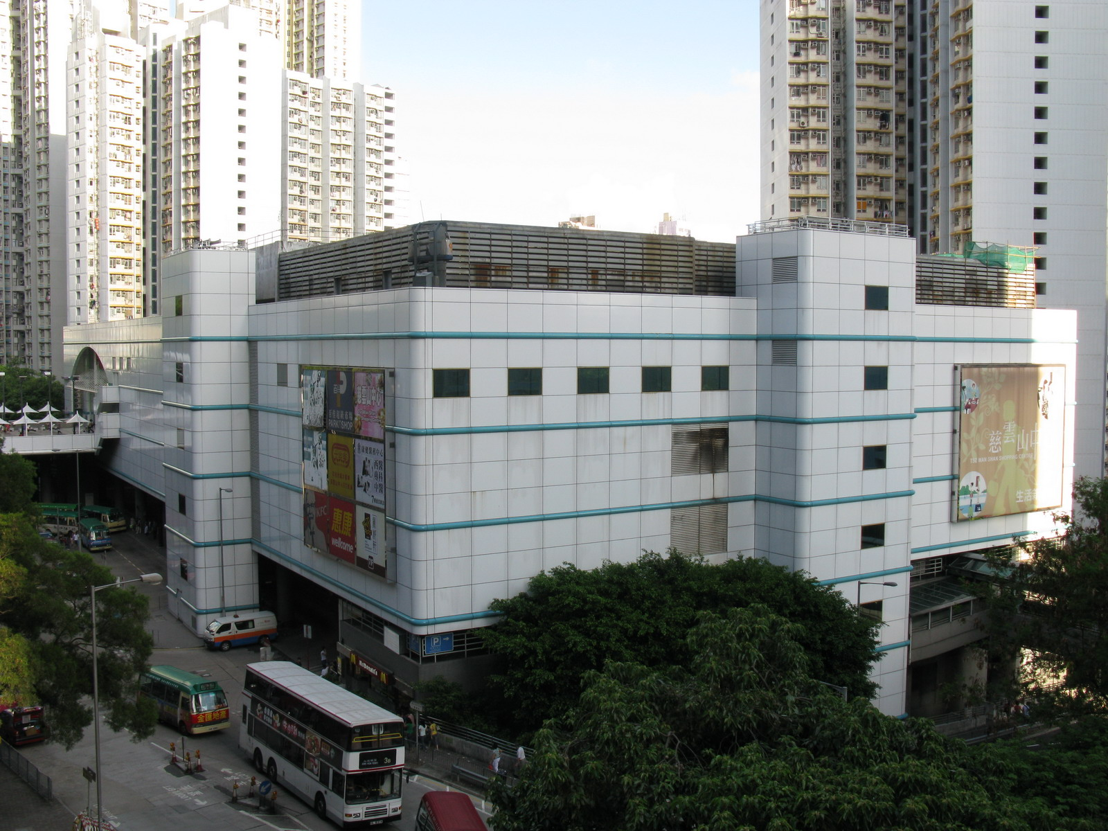 Tsz Wan Shan Shopping Centre